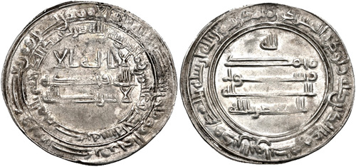 ISLAMIC, 'Abbasid Caliphate. al-Mu'tasim. AH 218-227 / AD 833-842. AR Dirham (27mm, 2.89 g, 11h). al-Muhammadiya (Rey) mint. Dated AH 221 (AD 836/7). Album 226; ICV 398. Near EF, toned, areas of weak strike, traces of deposits.